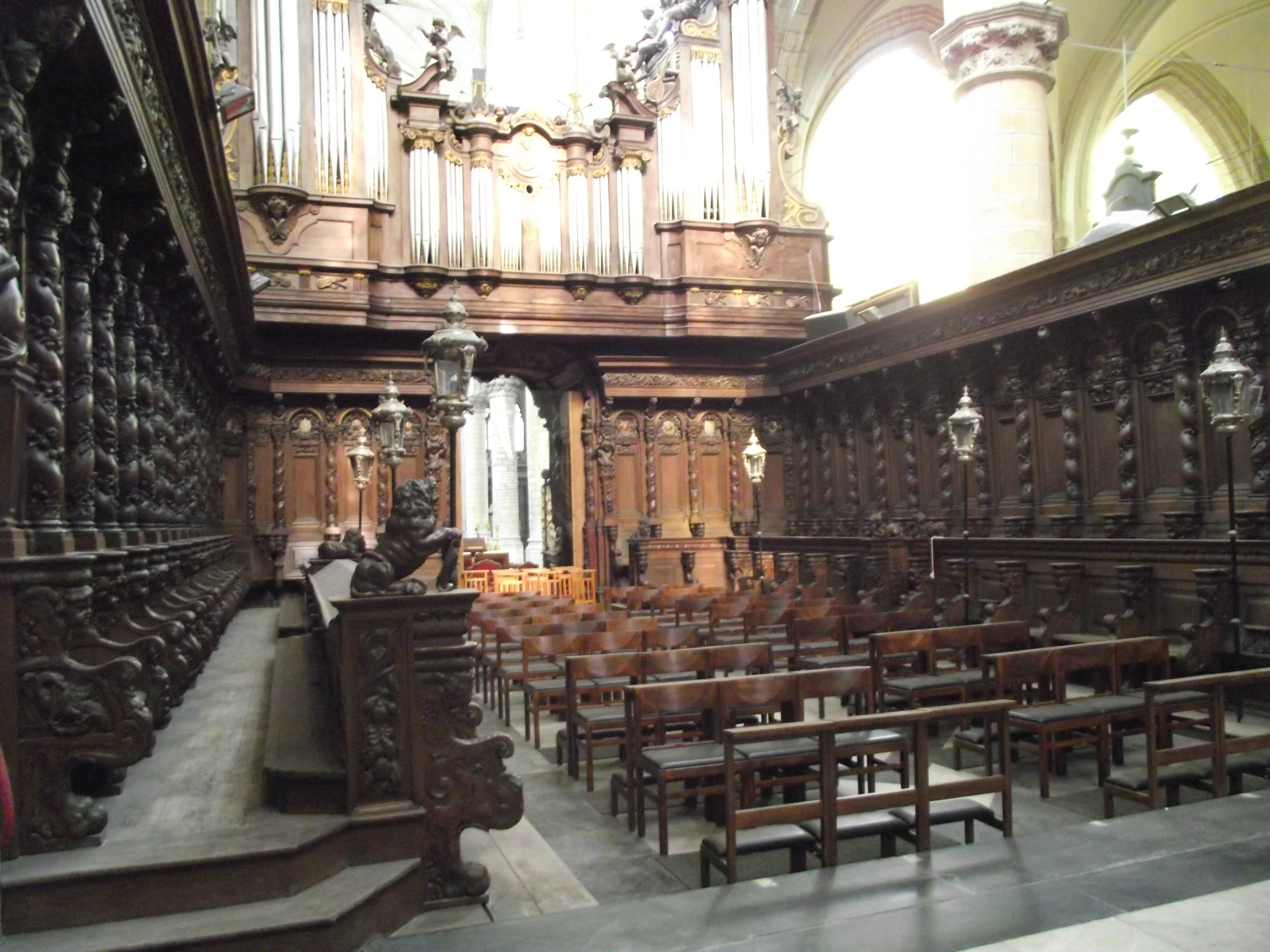 Antwerp, Saint James's Church, Choir by Artus Quellinus the Younger, 1658-70